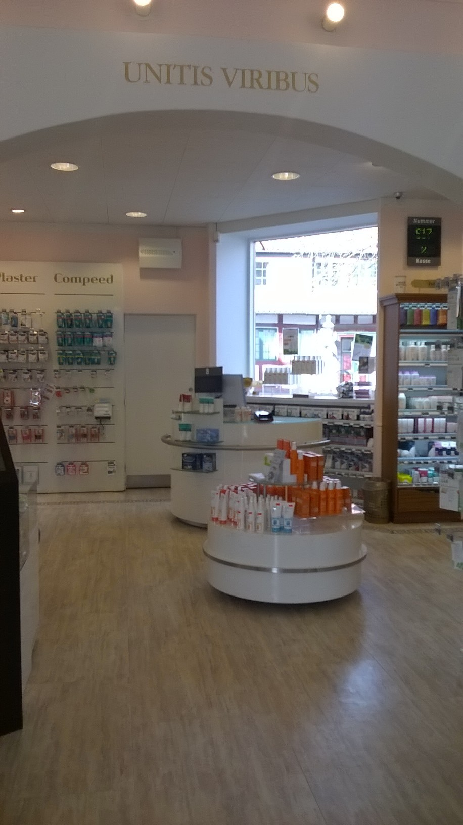 Interioir in Næstved Løve Apotek (Næstved Lion Pharmacy) in Næstved, Denmark. Founded in 1640.